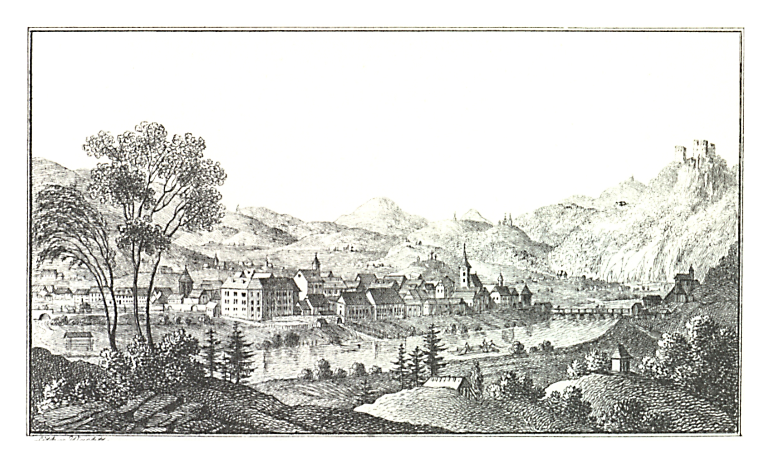 J. F. Kaiser - lithographirte Ansichten der Steyermärkischen Städte, Märkte und Schlösser Graz, 1825 Joseph Franz Kaiser (1786–1859) Alternative names J. F. KaiserDescriptionAustrian printer and editorDate of birth/death 11 March 1786 19 September 1859Location of birth/death Graz (Styria) GrazAuthority control : Q1499963 VIAF: 30629353 ISNI: 0000 0000 3083 0153 LCCN: n87141671 GND: 129880159 NLP: A24960305 WorldCat creator QS:P170,Q1499963 Scanprojekt Community Projektbudget 2012 This scan or this PDF-file was created within the GLAM-project Bookscanning, supported by Wikimedia Germany and Wikimedia Austria as a part of the community-project to capture books, documents and pictures which are not eligible to copyright or for which the copyright has expired. This document describes or depicts an object which is located in Austria today. Send requests for uncompressed scans to Hubertl. This work is in the public domain in its country of origin and other countries and areas where the copyright term is the author's life plus 100 years or less. You must also include a United States public domain tag to indicate why this work is in the public domain in the United States. This file has been identified as being free of known restrictions under copyright law, including all related and neighboring rights.